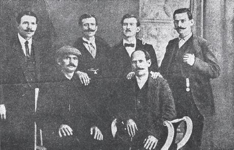 Cheta of IMARO voivoda Vladimir Slankov